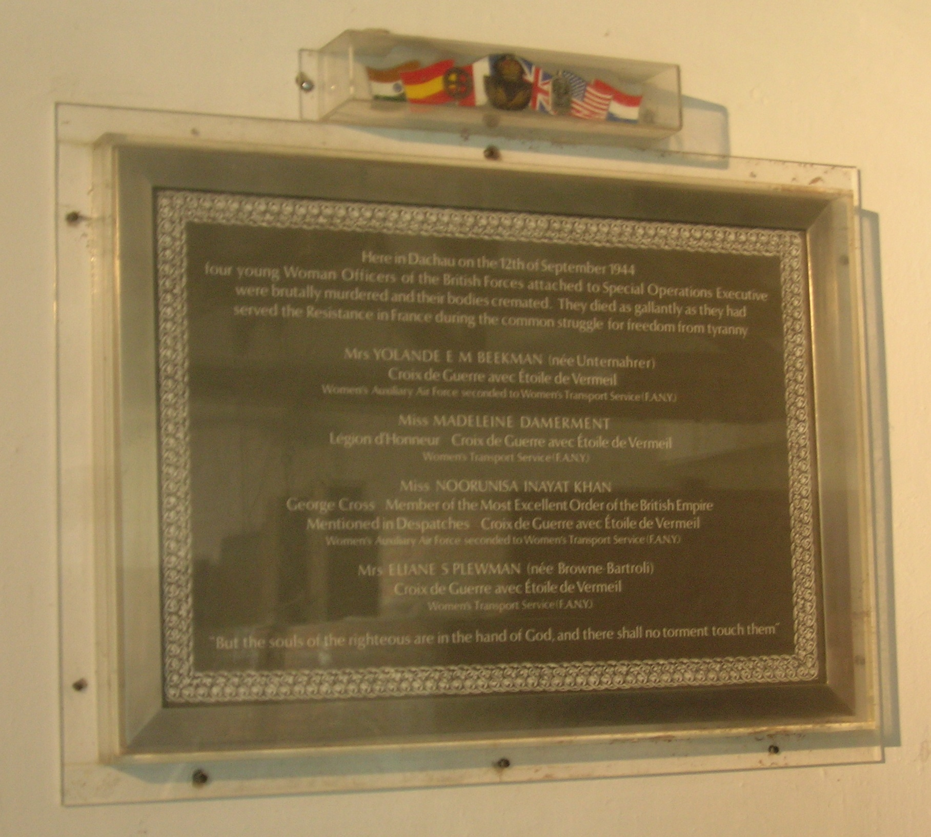 Image of Memorial Plaque in Dachau: "Here in Dachau on the 12th of September 1944 four young Women Officers of the British Forces attached to Special Operations Executive were brutally murdered and their bodies cremated. They died as gallantly as they served the Resistnace in France during the common struggle for freedom from tyranny. Mrs. Yolande Beekman, Miss Madeleine Damerment, Miss Noorunisa (Noor) Inayat Khan, Mrs. Eliane Plewman, "But the souls of the righteous are in the hand of God and there no torment shall touch them."